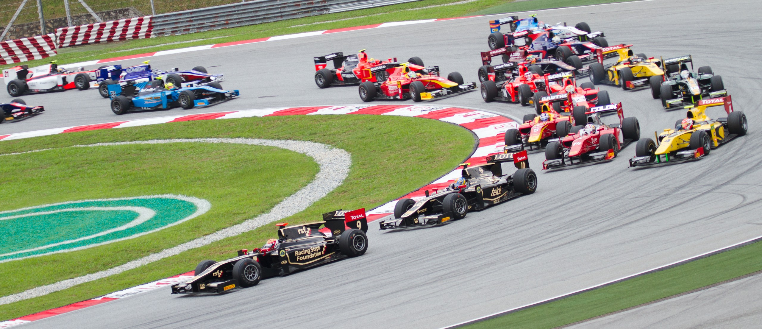 GP2 Series 2012 Rd.1 Malaysia - Sprint race: opening lap